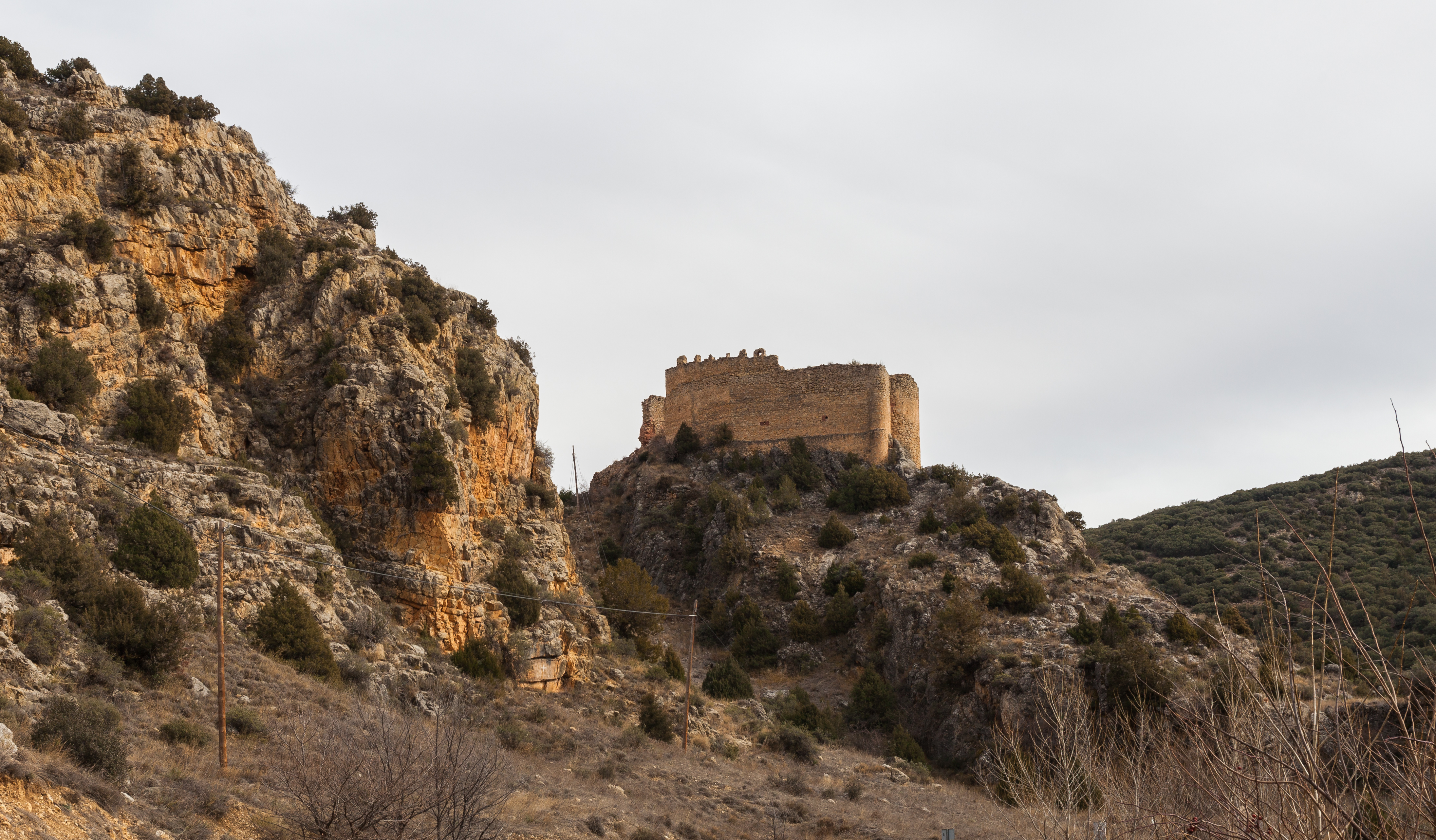 Castillo de Santa Croche, Albarracín, Teruel, Spain